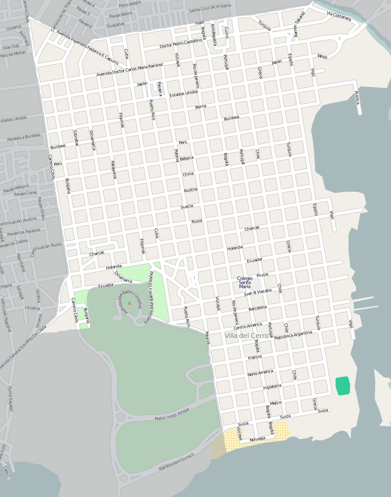 Street map of Villa del Cerro, Montevideo, exported from OpenStreetMap. I added shading to delimit the barrio. This map may be incomplete, and may contain errors. Don't rely solely on it for navigation.